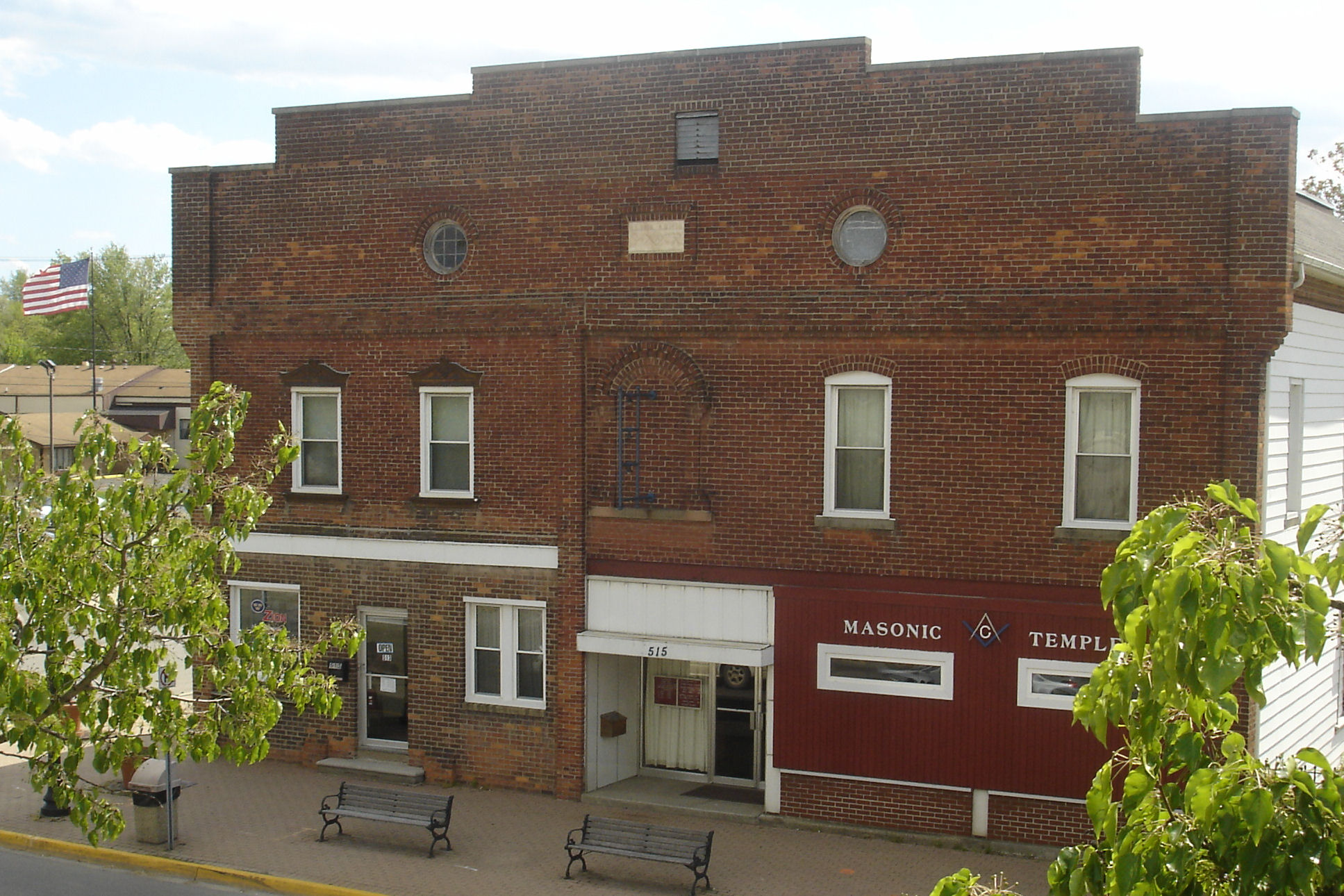 Belleville Masonic Temple — in Wayne County, Michigan.